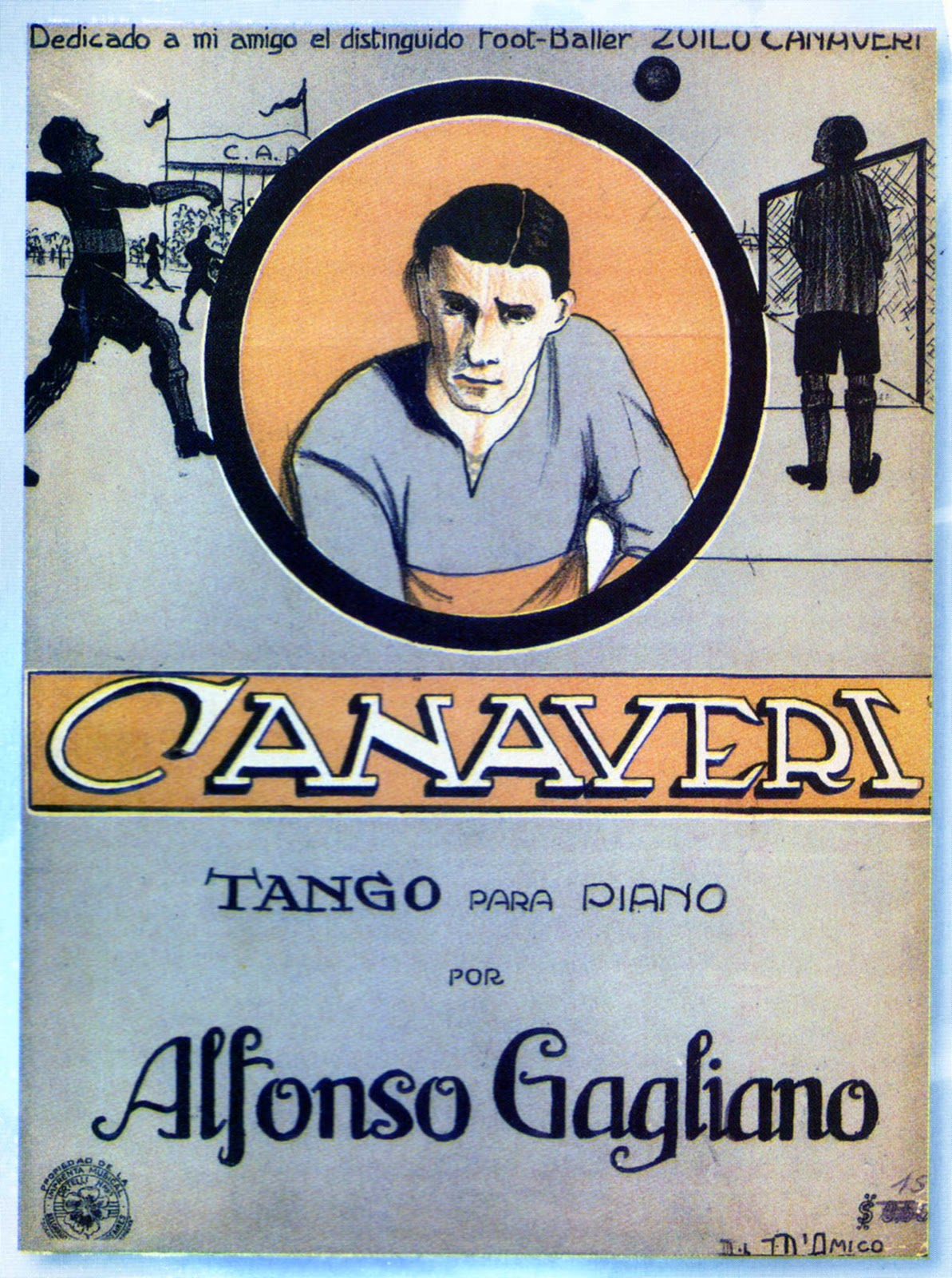 Album cover for Canaveri, tango composed by Alfonso Gagliano and dedicated to football player Zoilo Canavery.